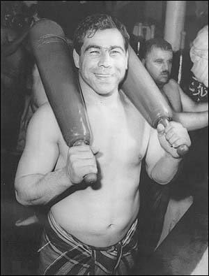 Jahan Phalavan Takhti Olympic Gold Winner (1956), World Wrestling Champion (1959 and 61), and winner of Pahlavani Armlet in 1957, 58 and 59 practising with a pair of light-weight Meels